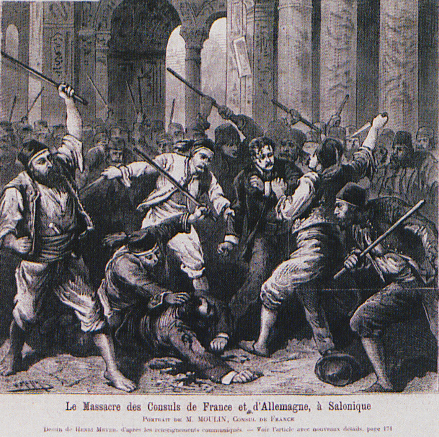 Front page of "Le Journal illustré", 28 May 1876.